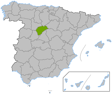 Location of the province of Segovia, in Spain. Basado en: ProvPont.jpg Source: Designed by Satesclop. Original picture, designed by Sobreira.